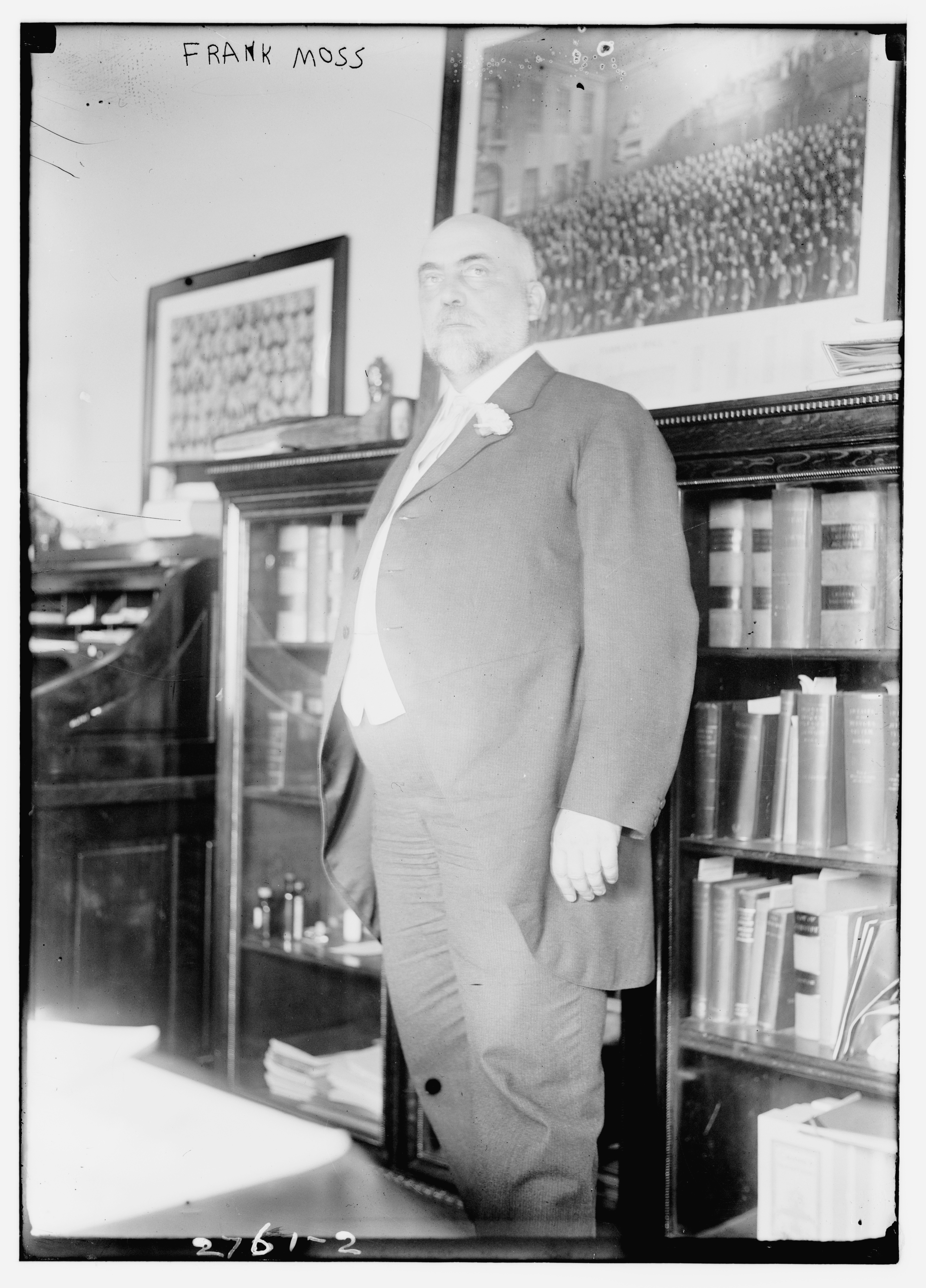 Bain News Service,, publisher. Frank Moss [no date recorded on caption card] 1 negative : glass ; 5 x 7 in. or smaller. Notes: Title from unverified data provided by the Bain News Service on the negatives or caption cards. Forms part of: George Grantham Bain Collection (Library of Congress). Format: Glass negatives. Repository: Library of Congress, Prints and Photographs Division, Washington, D.C. 20540 USA, General information about the Bain Collection is available at Persistent URL: Call Number: LC-B2- 2761-2